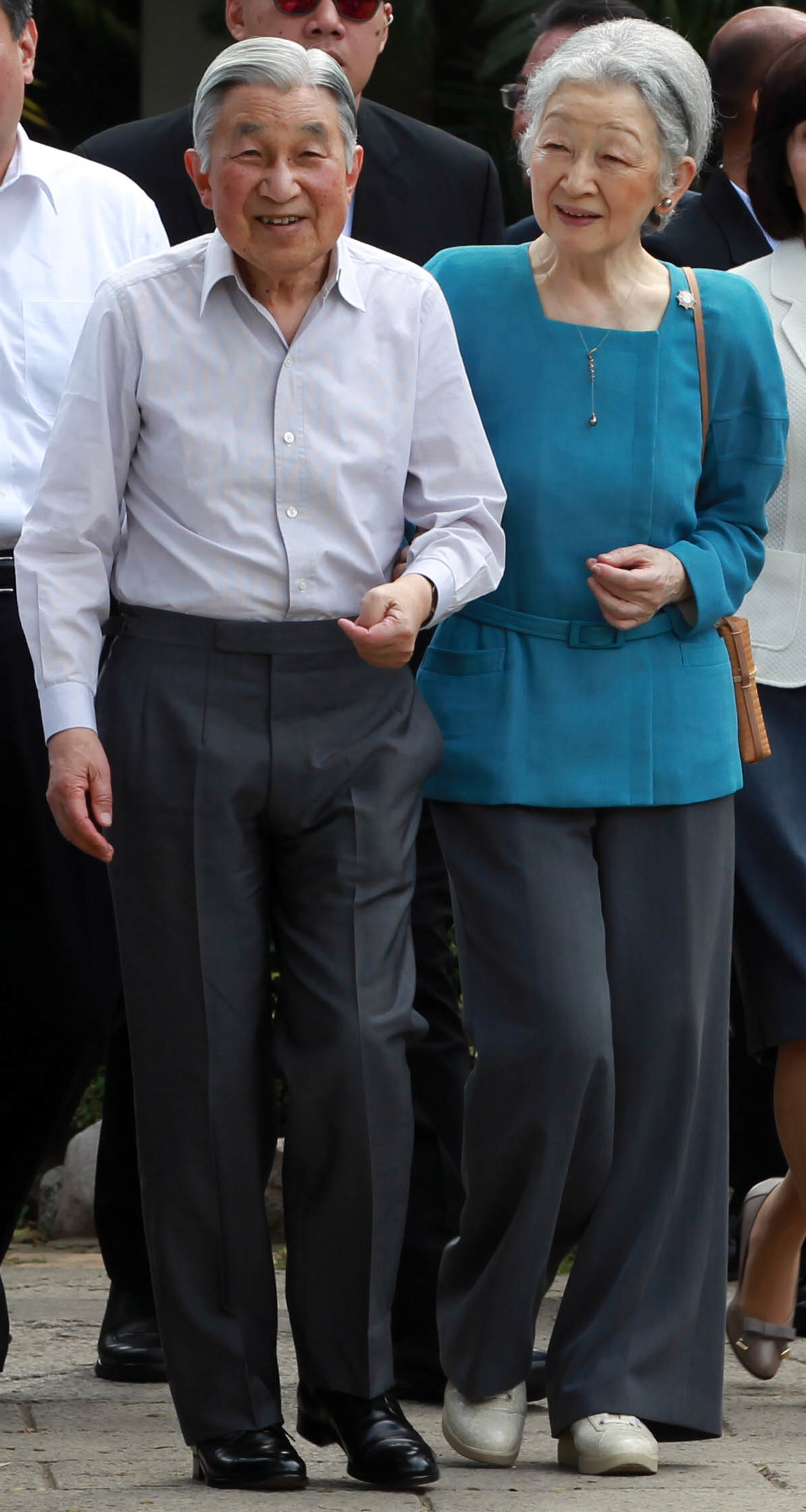 Japanese Emperor Akihito and Empress Michiko meet the representatives of the Philippine Federation of Japan Alumni Thursday (January 28) 2016, at the ancient San Diego Garden, located along the walls of Intramuros in Manila. (Photo by Benhur Arcayan / Malacañang Photo Bureau)